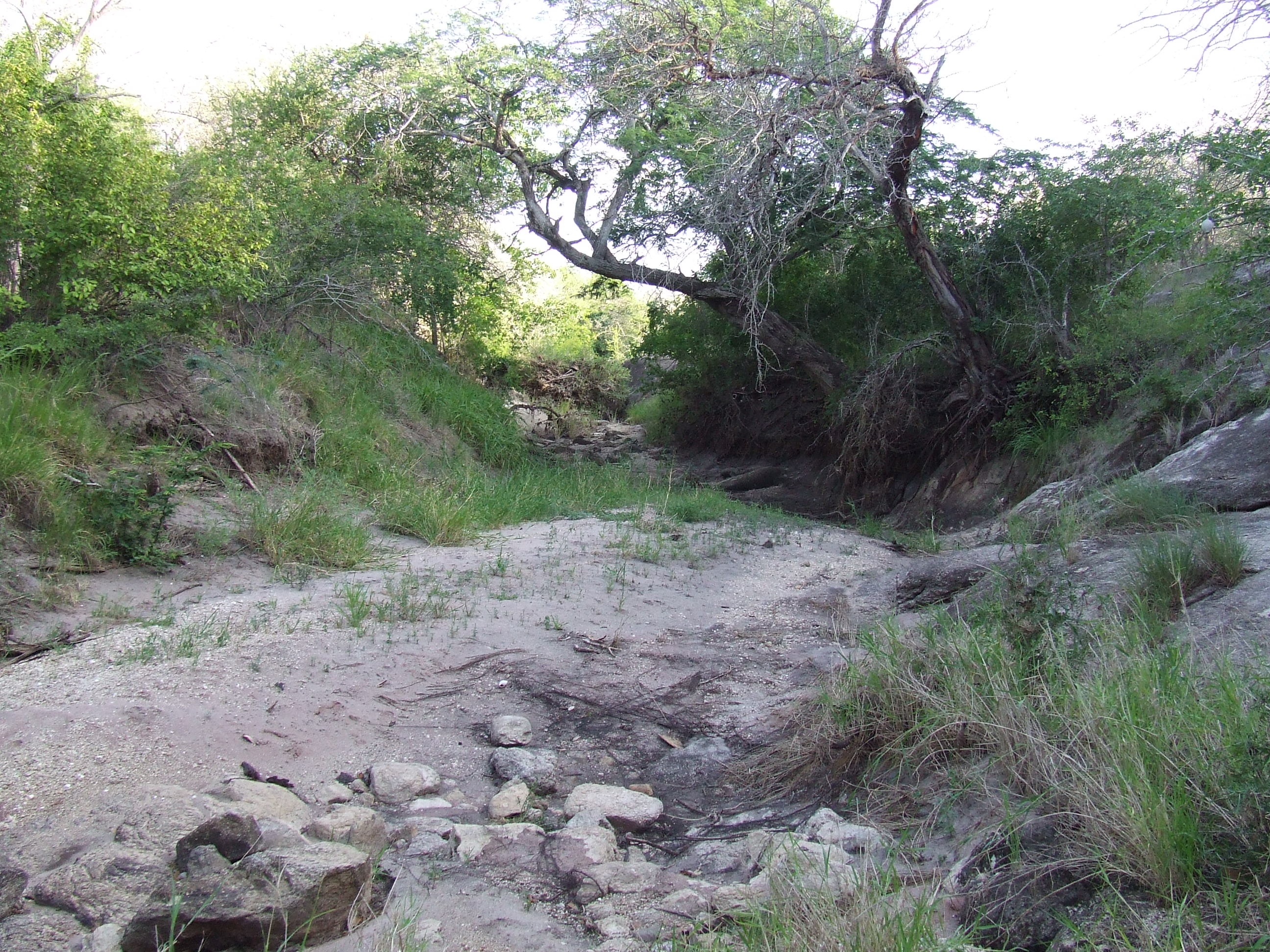 Mkomazi National Park, Tanzania